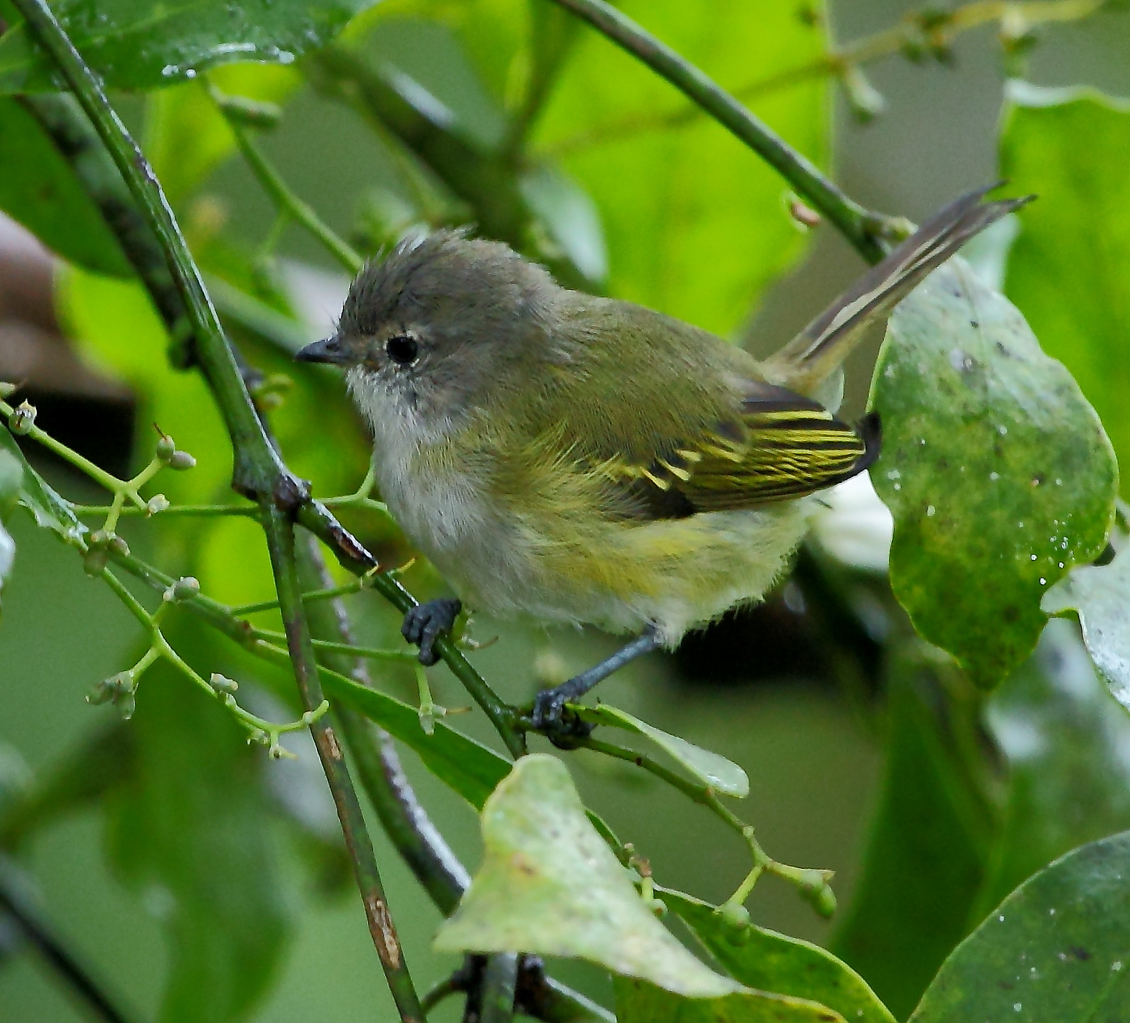 Grey-capped tyrannulet at São Luiz do Paraitinga - SP - Brazil